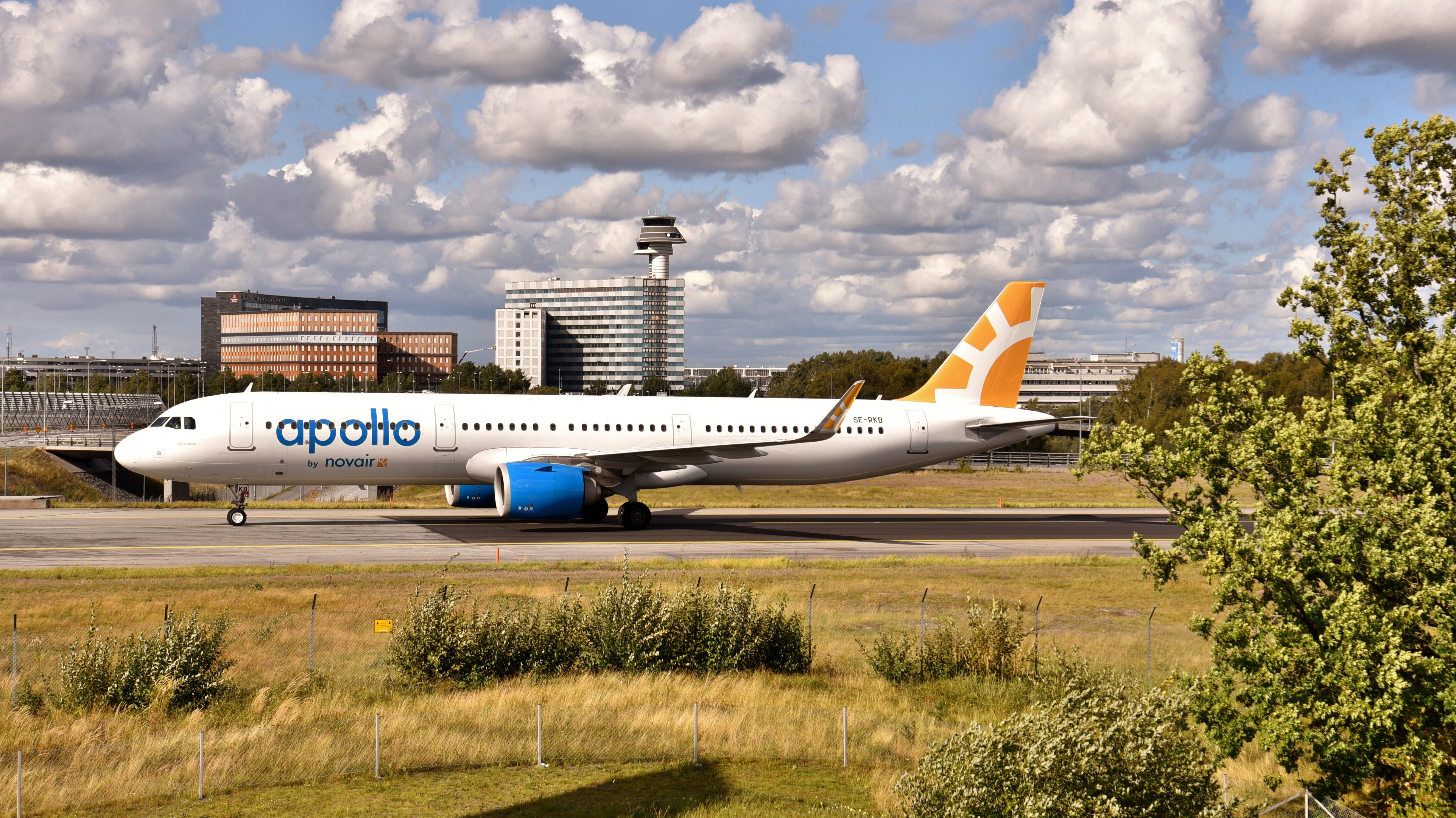 Novair Airbus A321-251N SE-RKB taxiing at Stockholm Arlanda (ARN/ESSA), Sweden